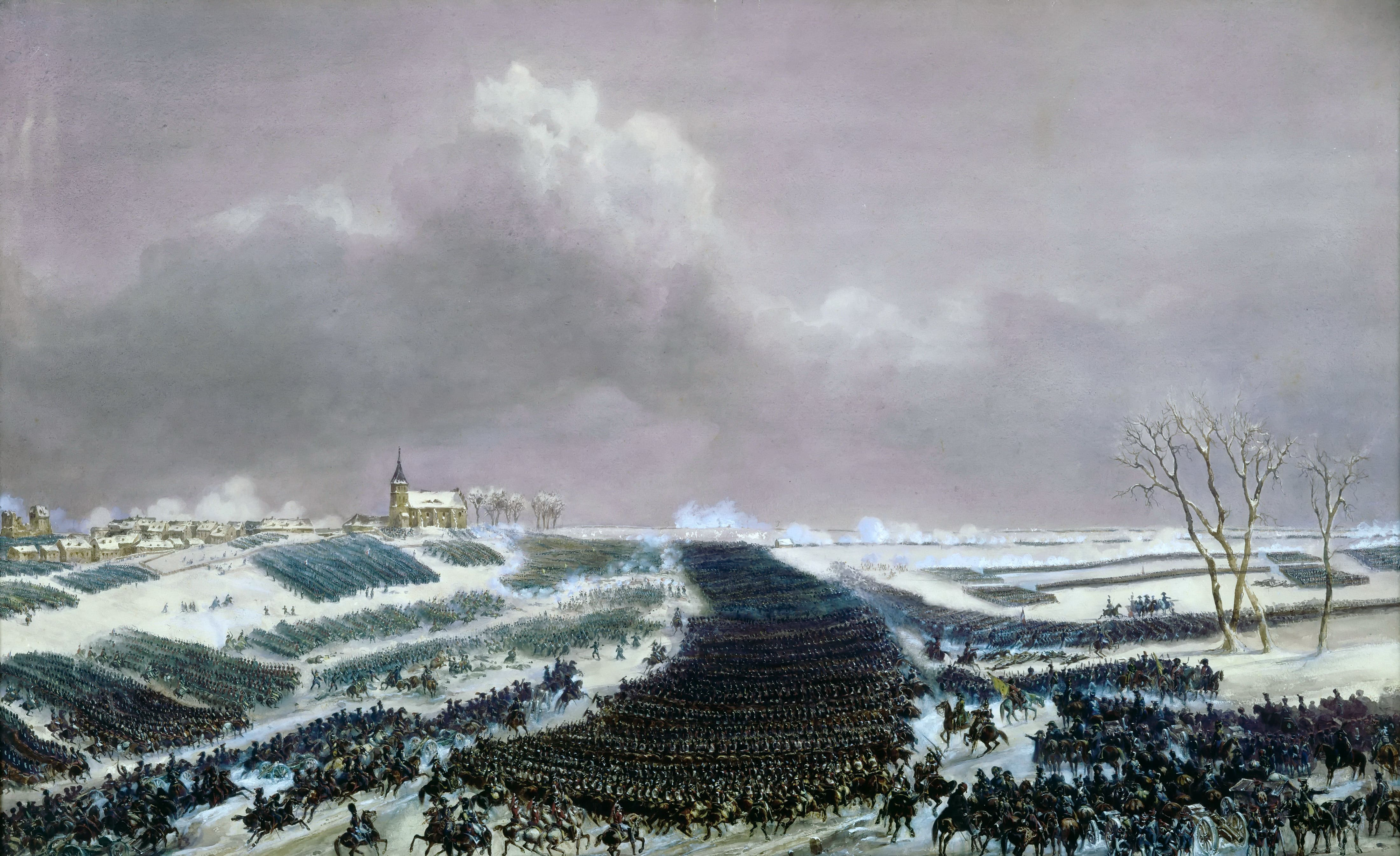 Cavalry charge at Eylau, painted by Jean-Antoine-Siméon Fort. At the Battle of Eylau, Murat's 10,700-man cavalry charged the Russian lines. D'Hautpoul himself led three charges into the Russian infantry squares.